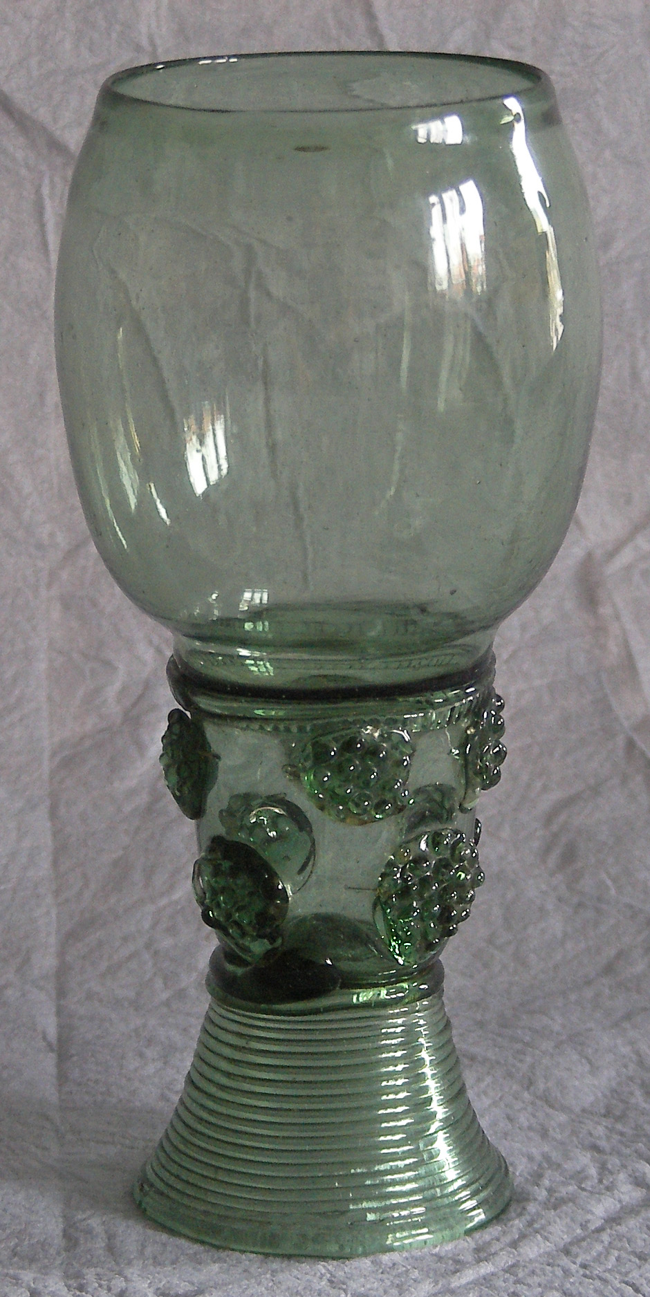 Römer / Waldglas, 17th century, Germany or Netherlands